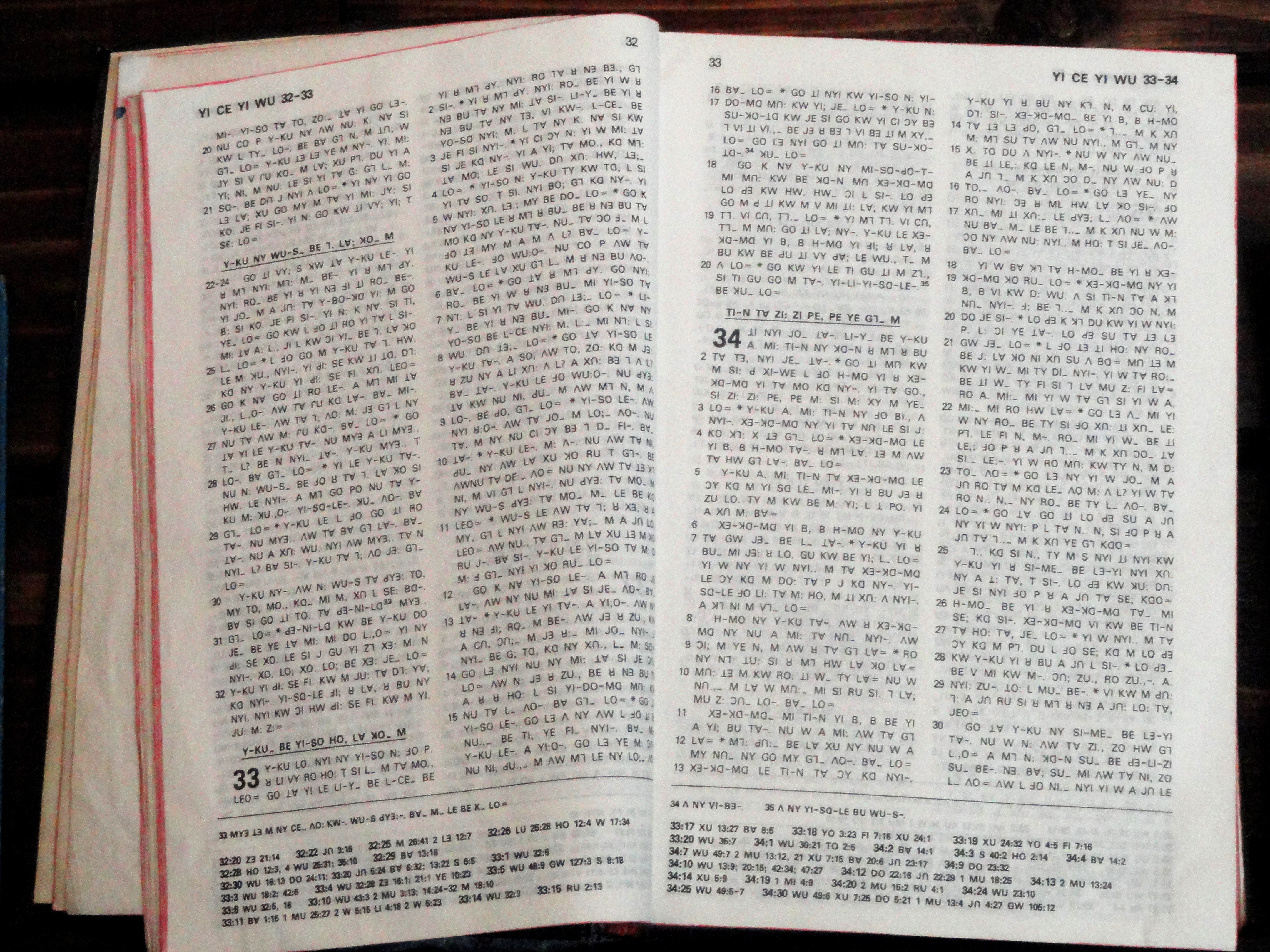 Bible in Lisu script (Fraser alphabet). Manuscripts / writing systems in the Yunnan Nationalities Museum, Kunming, Yunnan, China.